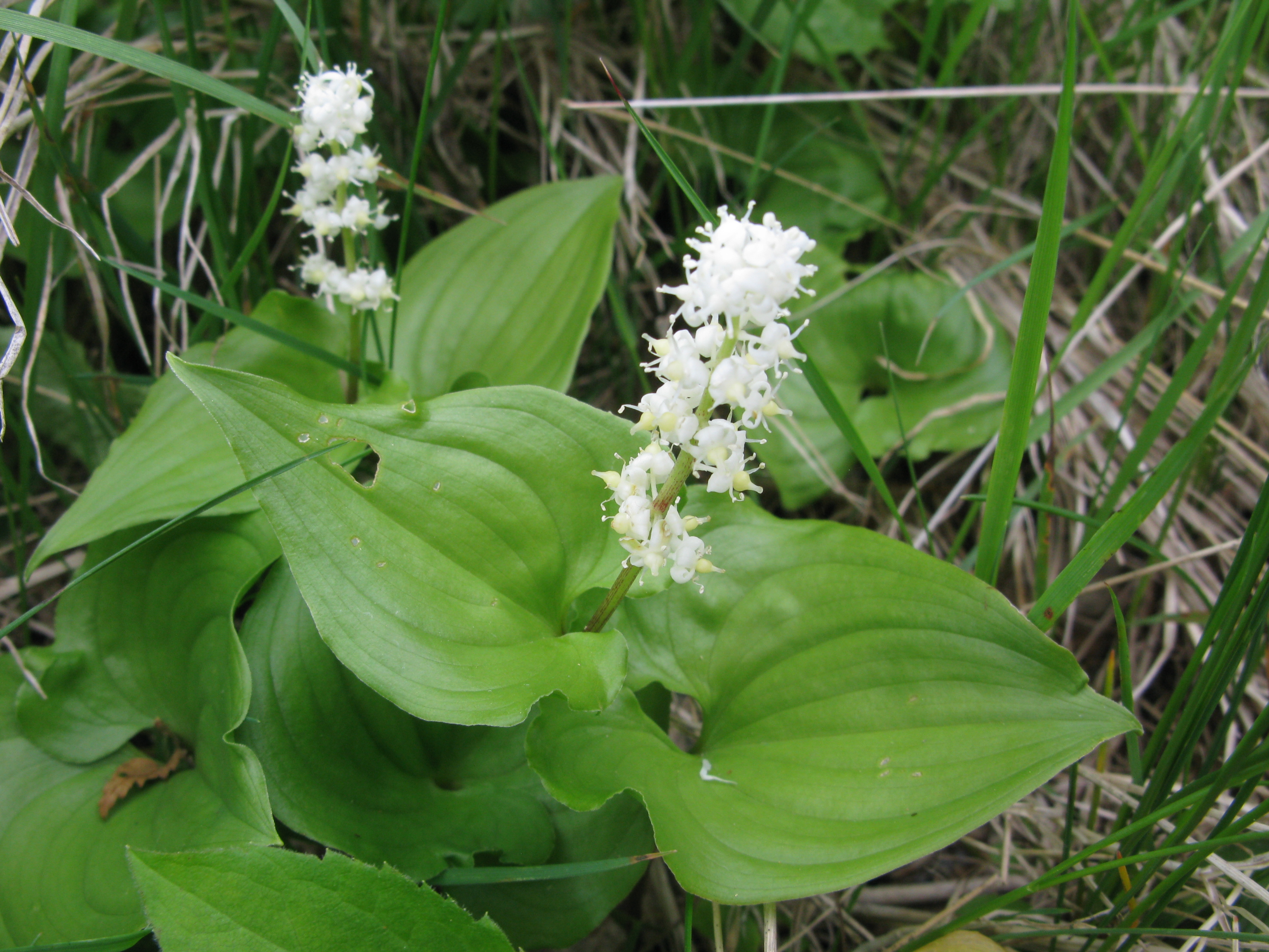 Maianthemum dilatatum, Mount Nishi-Azuma, Yamagata pref., Japan